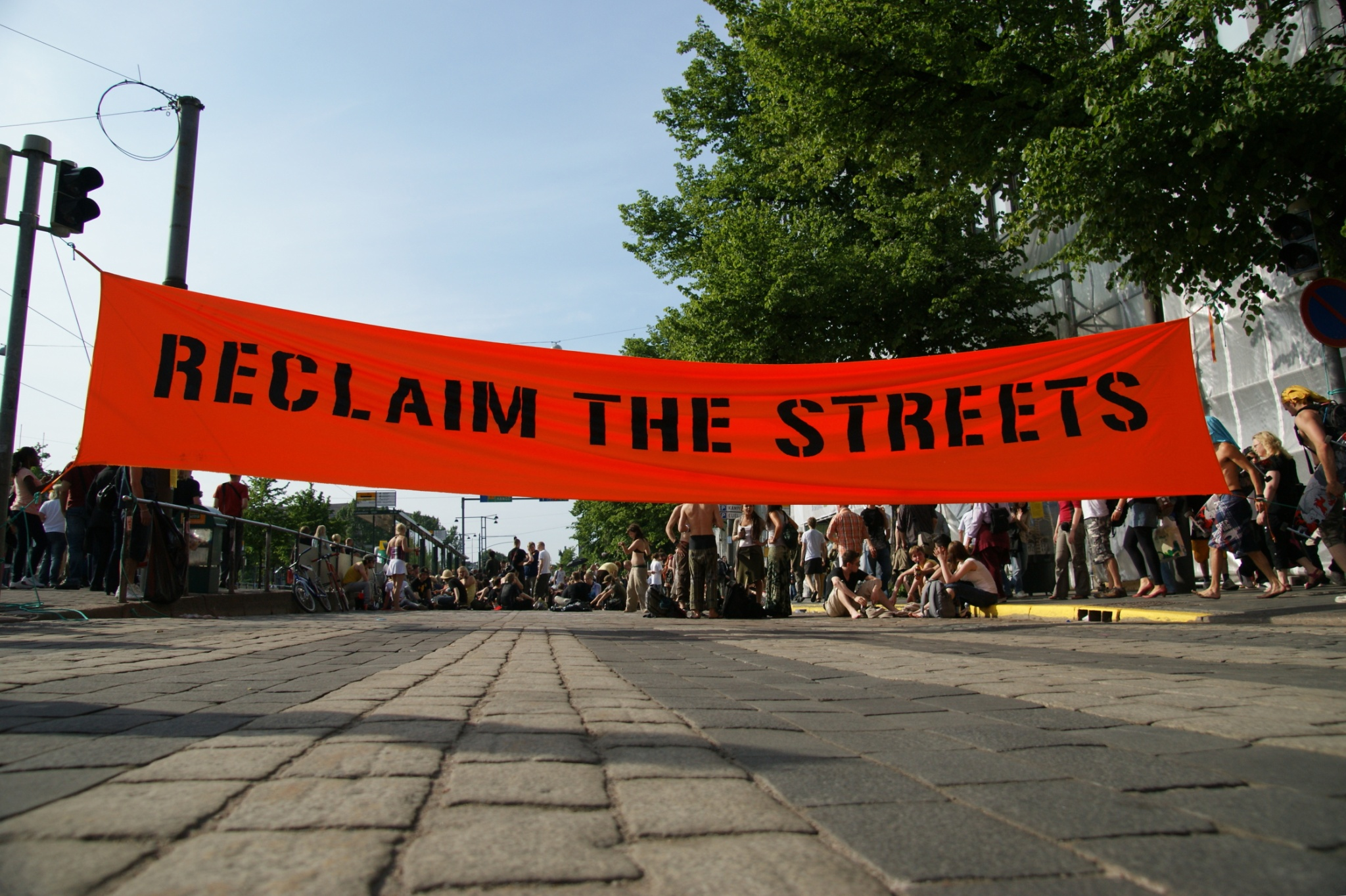 Reclaim the streets sign Flattr this!